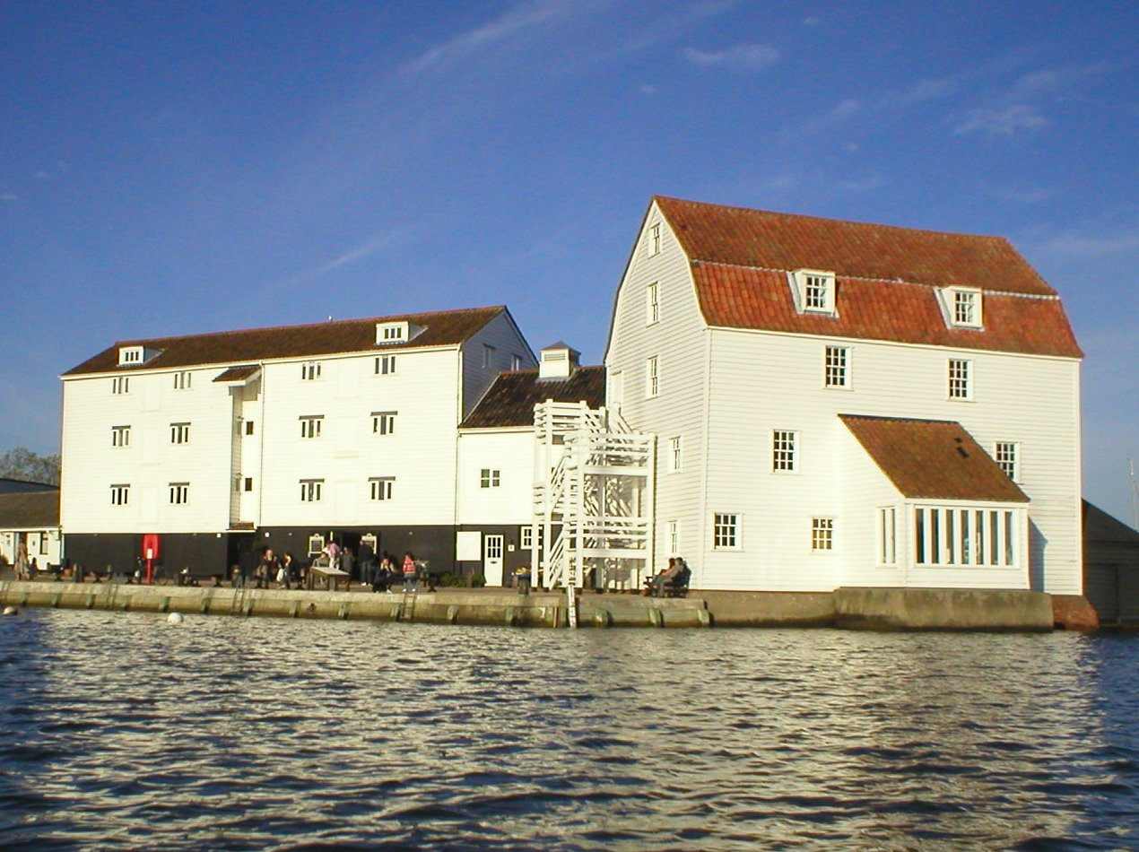 Woodbridge Tide Mill (Nick F)